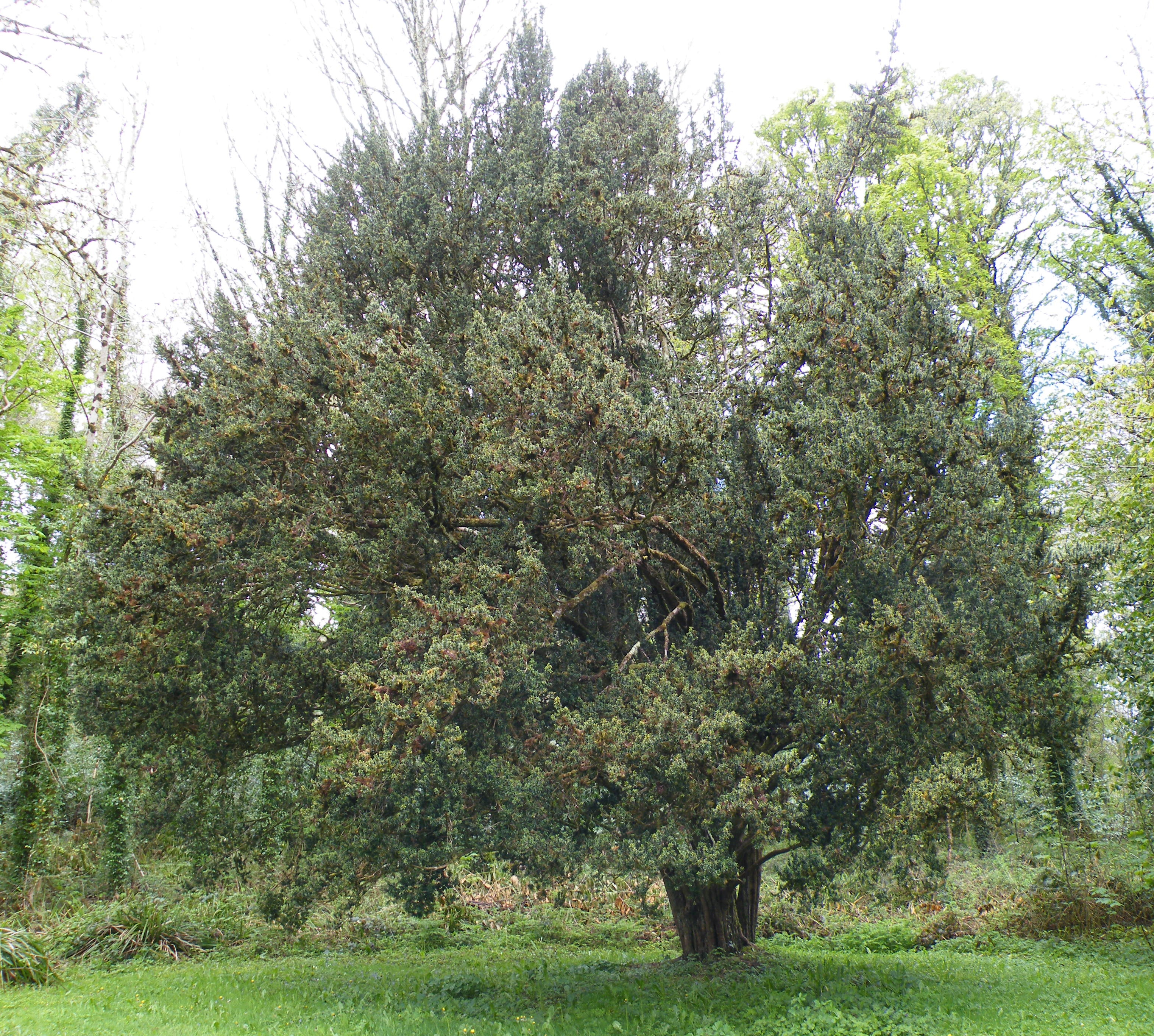 Florencecourt Yew seen from (approx) NW, Grounds of Florence Court Estate